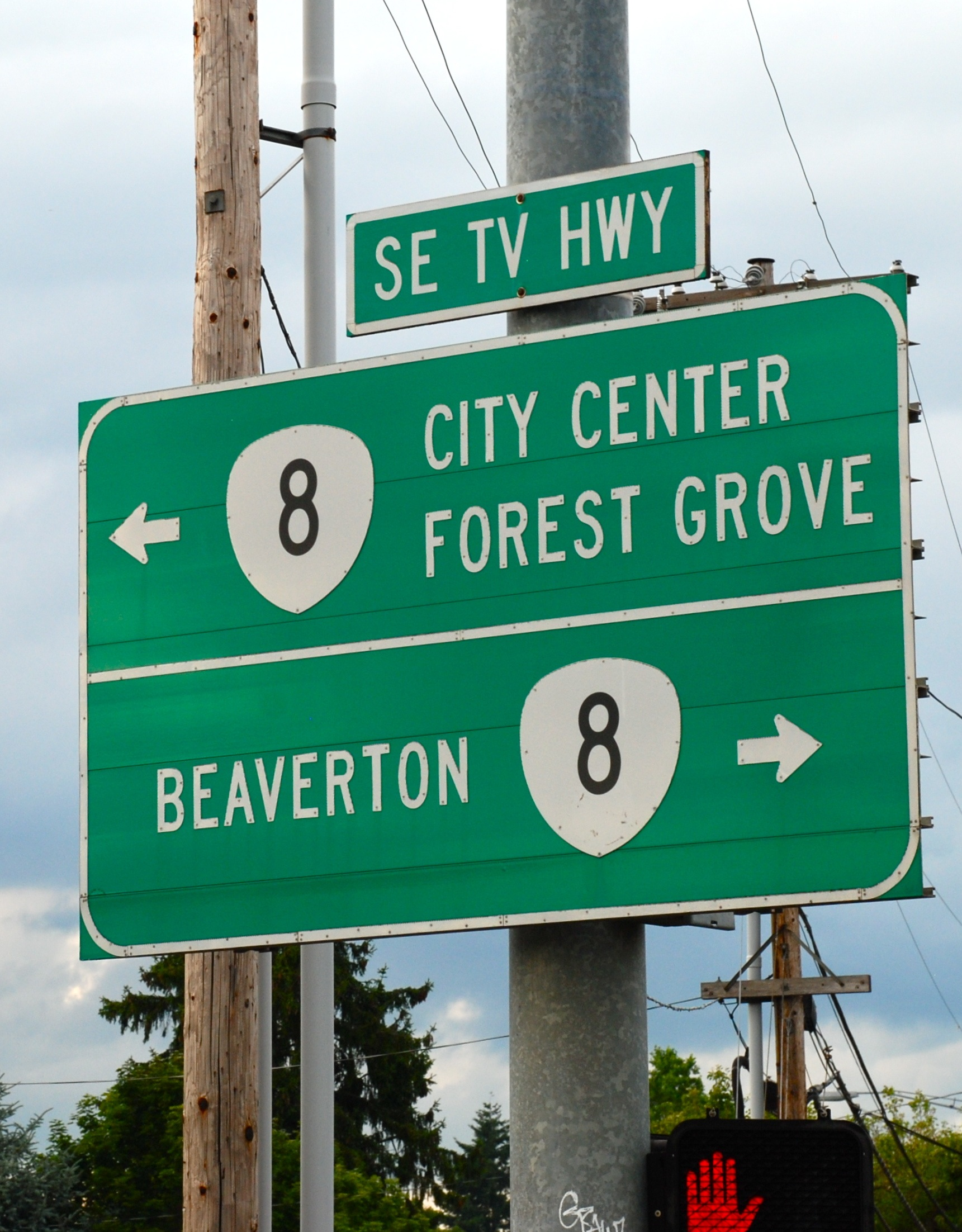 Signs marking Oregon Highway 8 (also called T.V. Highway, short for Tualatin Valley Highway, on a long portion) at the highway's intersection with SE 13th Avenue, just east of downtown Hillsboro, Oregon.